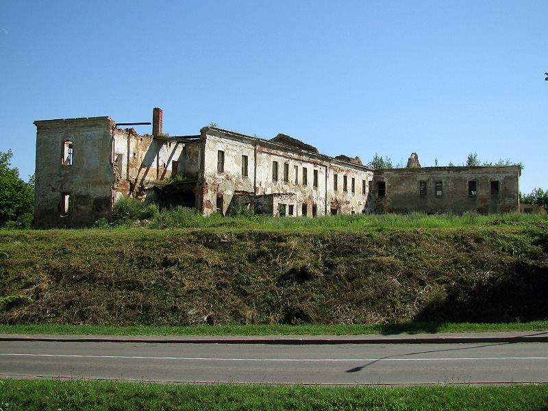 Беларуская (тарашкевіца): Фрагменты замка. г. Быхаў This is a photo of Belarusian heritage monument. Reference number: 512Г000153 ( WLM)